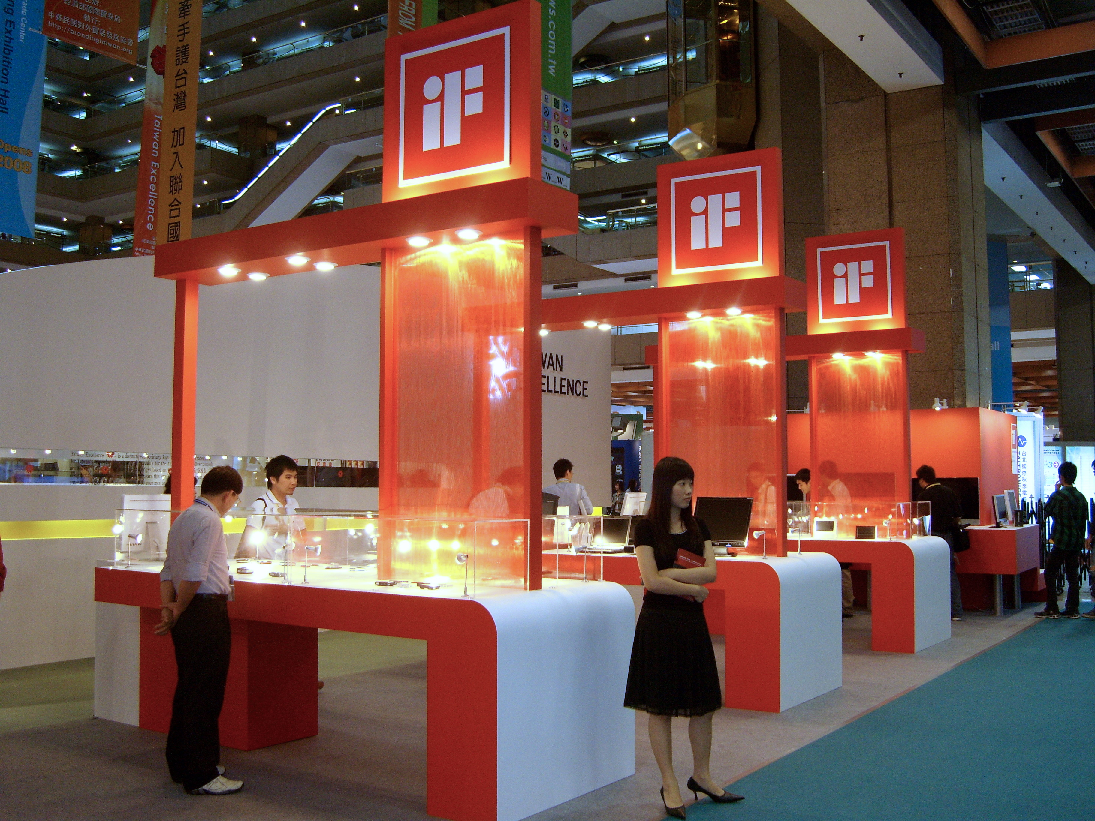 iF Design Award Taiwan Products Pavilion at 2007 TAITRONICS Autumn.